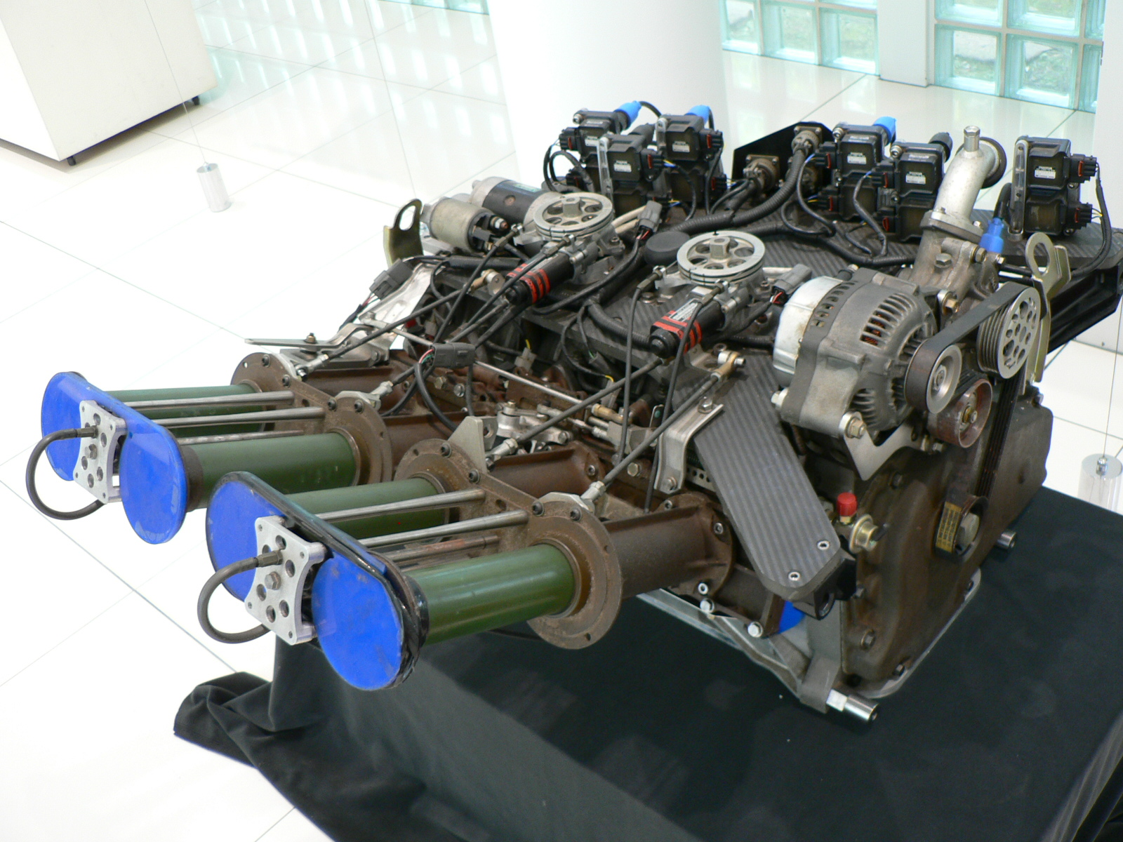 MAZDA R26B engine